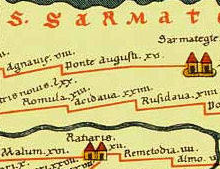 Part of Tabula Peutingeriana centered on Dacian town of Acidava, 1-4th century CE. Facsimile edition by Conradi Millieri, 1887/1888